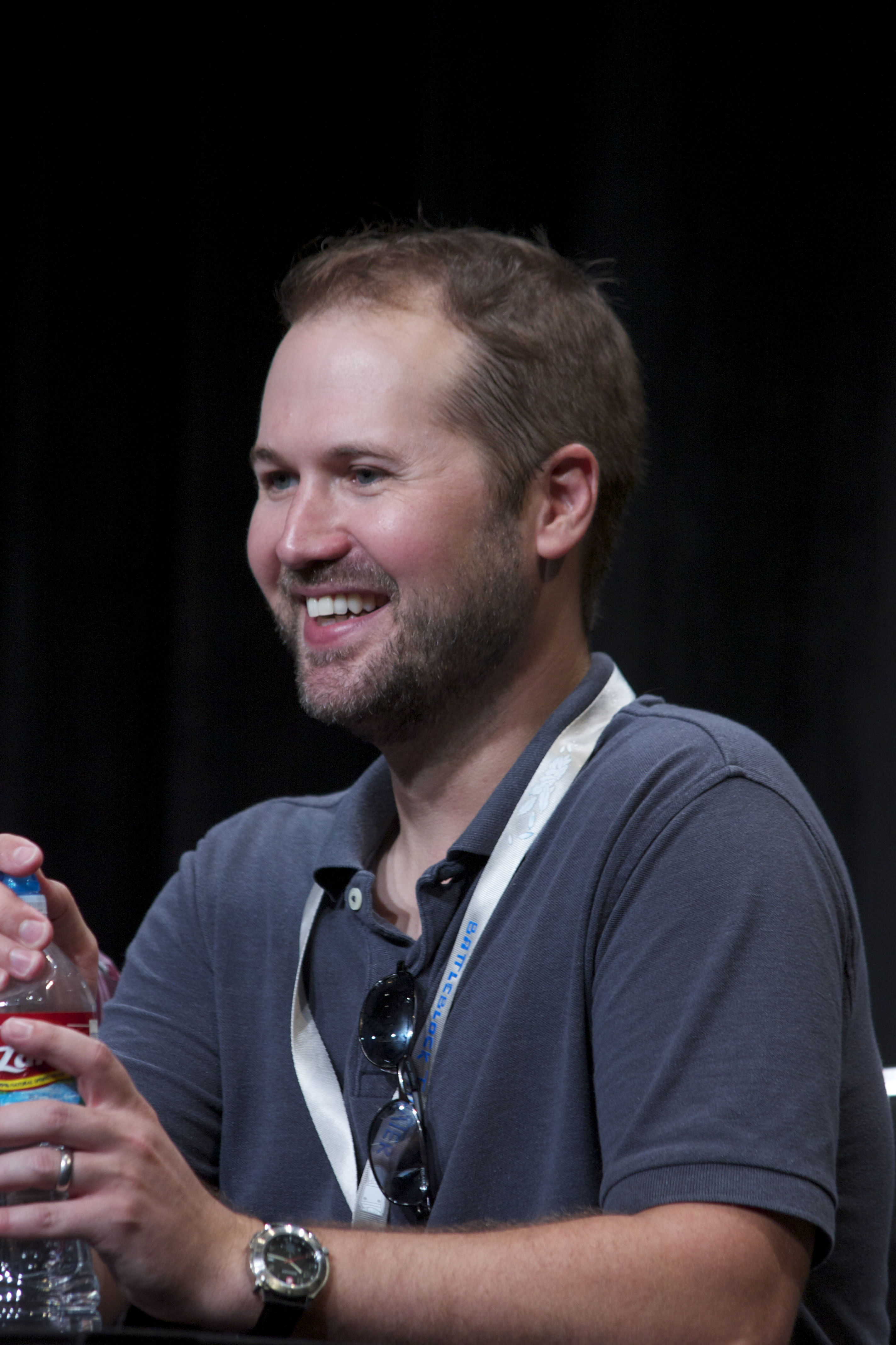 Matt Hullum - CEO of RoosterTeeth Productions, take in the Austin Convention Center at RTX 2013.